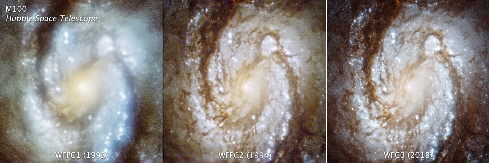 PIA22913: M100 Through 3 Cameras - Hubble Space Telescope These three images are of the central region of the spiral galaxy M100, taken with three generations of cameras that were sequentially swapped out aboard the Hubble Space Telescope, and document the consistently improving capability of the observatory. The image on the left was taken with the Wide Field and Planetary Camera 1 in 1993. The photo is blurry due to a flaw (called spherical aberration) in Hubble's primary mirror. Celestial images could not be brought into a single focus. The middle image was taken in late 1993 with Wide Field and Planetary Camera 2 that was installed during the December 2 - 13 space shuttle servicing mission (SM1, STS-61). The camera contained corrective optics to compensate for the mirror flaw, and so the galaxy snapped into sharp focus when photographed. The image on the right was taken with a newer instrument, Wide Field Camera 3, that was installed on Hubble during the space shuttle servicing mission 4 (SM4) in May, 2009. The Hubble Space Telescope is a project of international cooperation between NASA and the European Space Agency. NASA's Goddard Space Flight Center in Greenbelt, Maryland, manages the telescope. The Space Telescope Science Institute (STScI) in Baltimore conducts Hubble science operations. STScI is operated for NASA by the Association of Universities for Research in Astronomy, Inc., in Washington